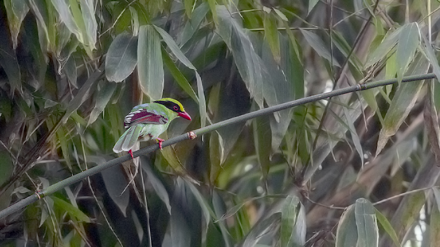 The species Common Green Magpie had been photographed during the birding tour of GoingWild at Mahananda Wildlife Sanctuary in West Bengal, India on 07.12.2015.